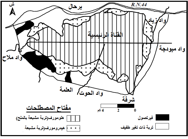 Lake of fetzara